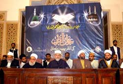 Licensing Policy about Wikipedia This is to clarify that all contents and images of this website can be used with reference of this website on Wikipedia under the free license: Creative Commons Attribution-Share Alike 4.0 International.